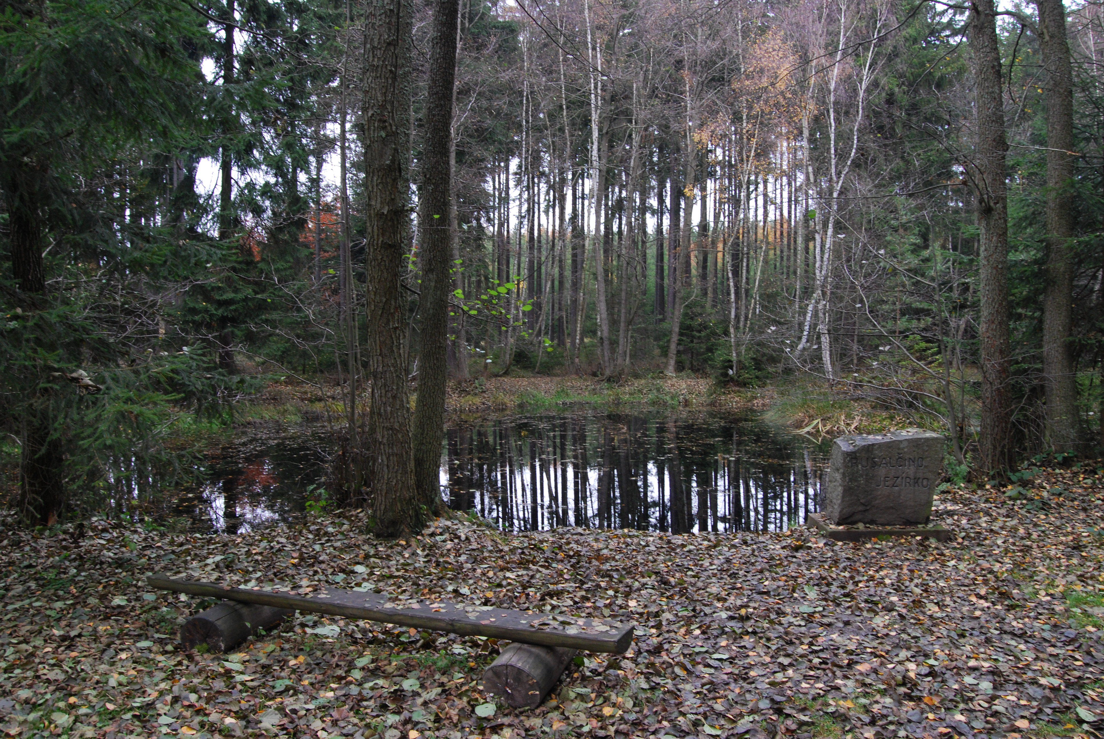 Rusalčino lake near Vysoká u Příbramy village in Příbram District, Czech Republic.